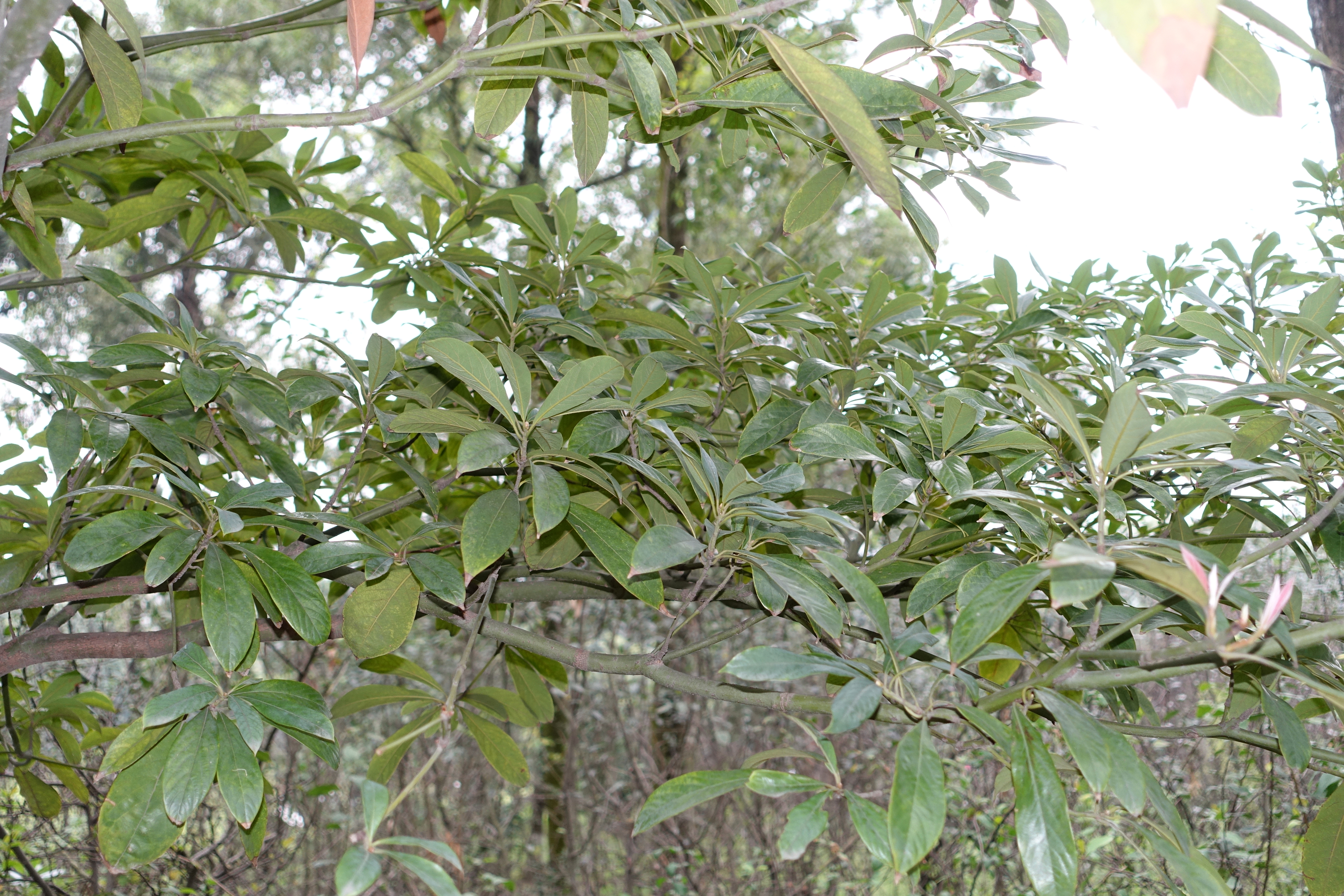 Botanical specimen in the Chengdu Botanical Garden - Chengdu, China.